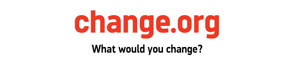 The logo for and mission statement